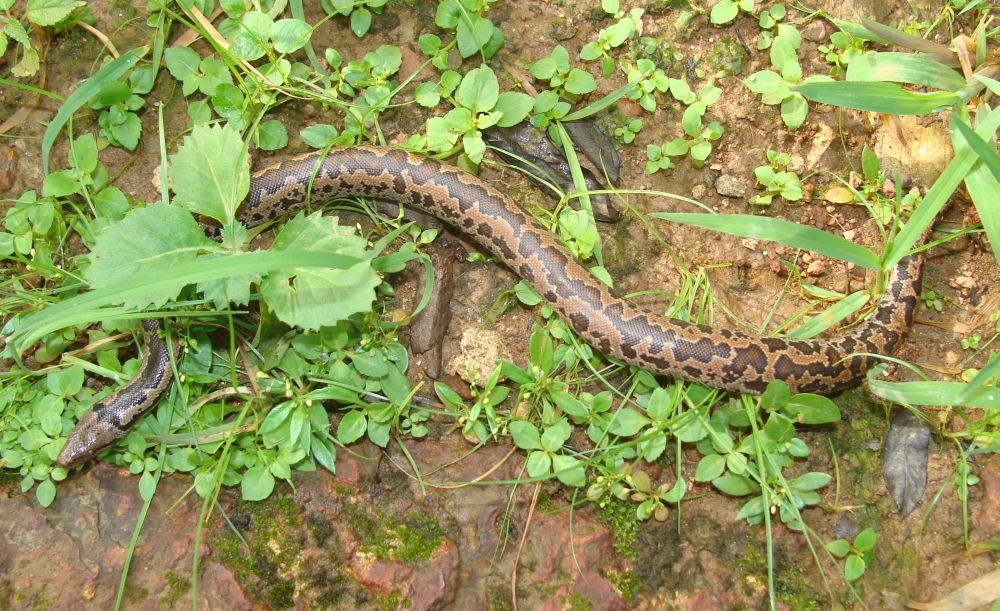 The picture was taken in Pilerne, Goa, India, on July 16, 2009. The picture is that of a juvenile Whitaker's Boa (Eryx whitakeri).